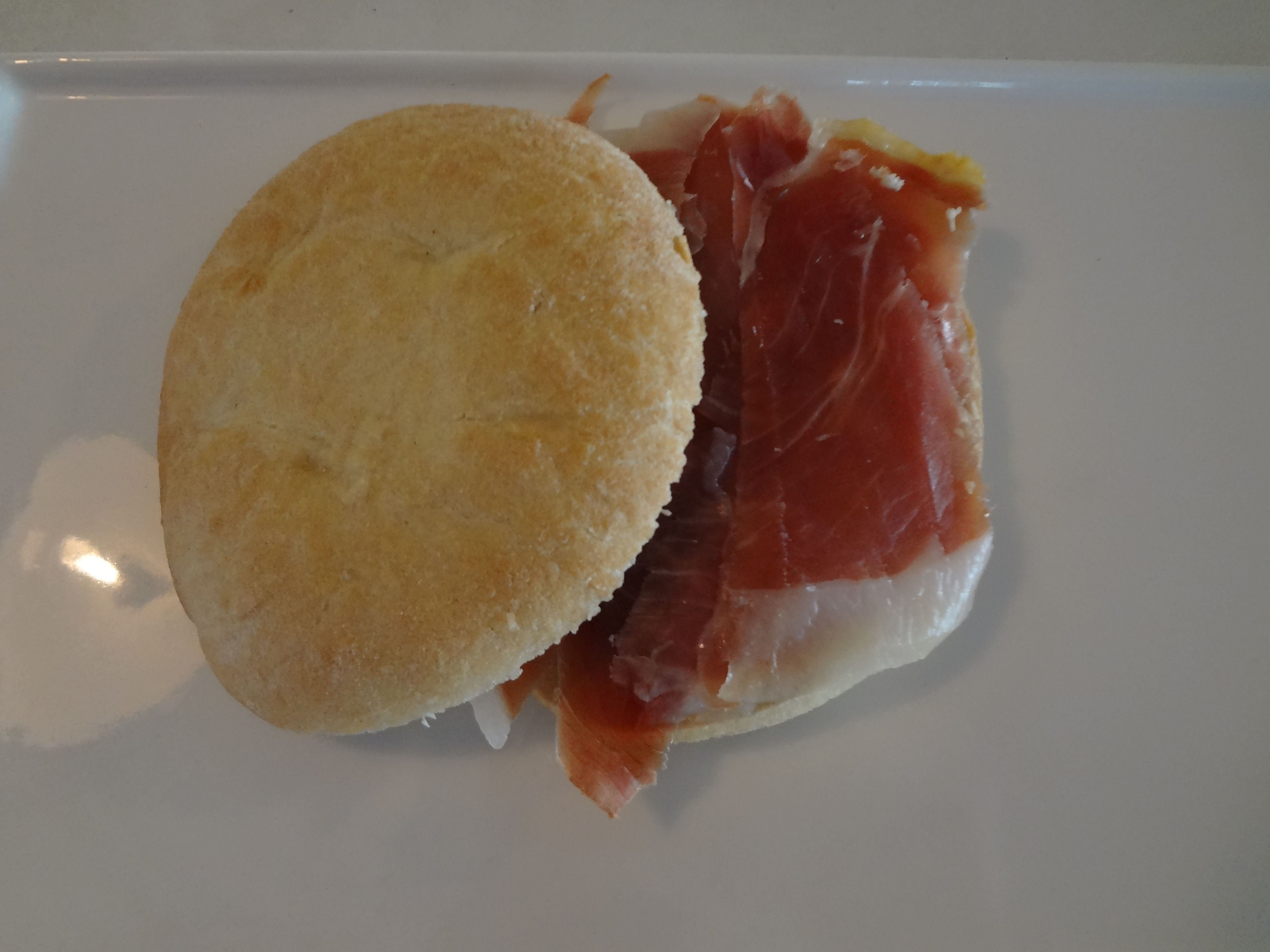 Palo Santo Cafe, Aranda de Duero, Spain Europe Tapas Bar